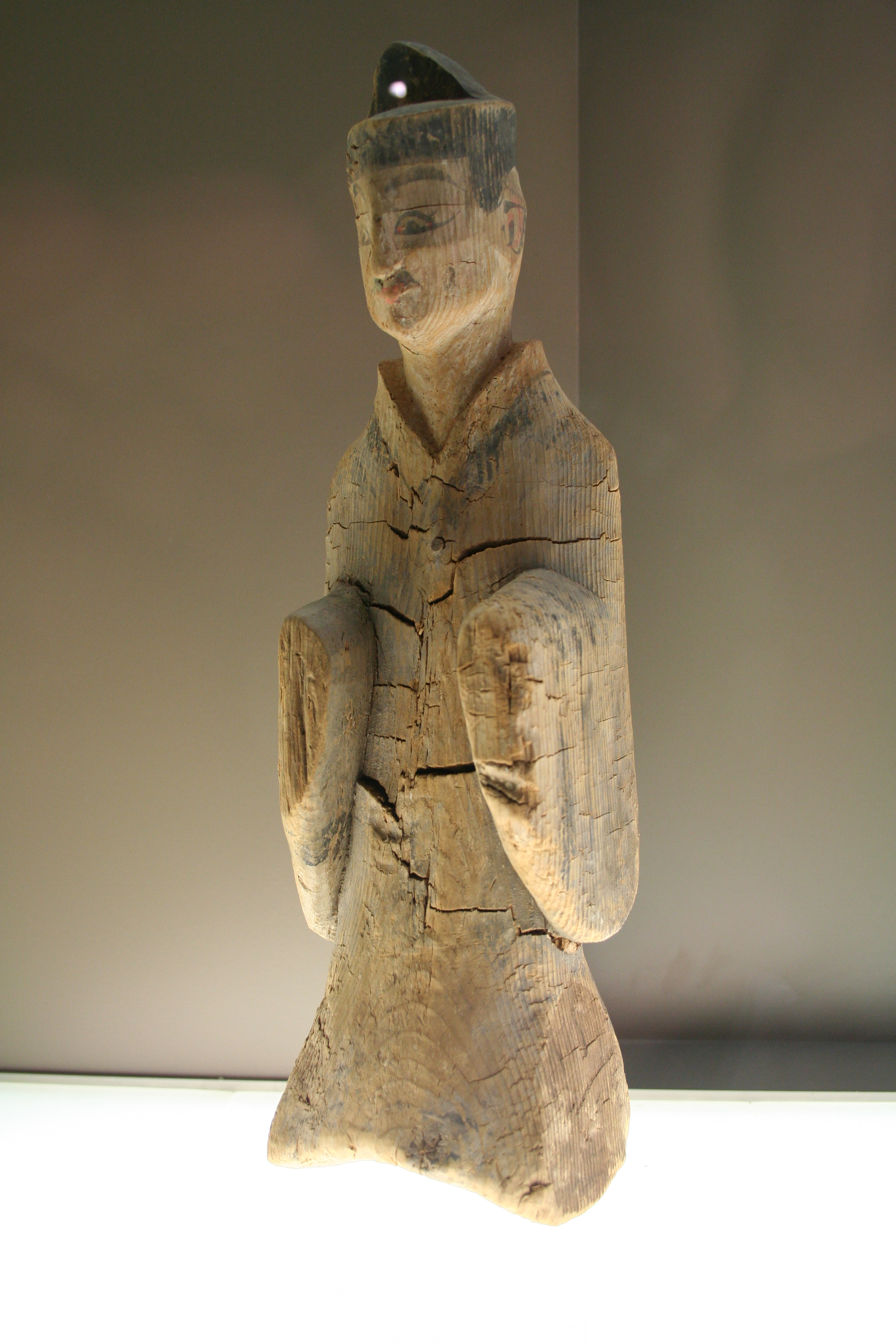 Cernuschi Museum, Paris, France.